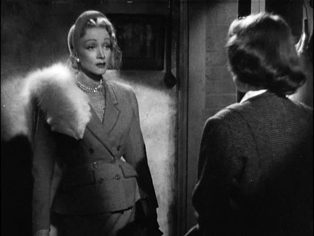 Template:EN